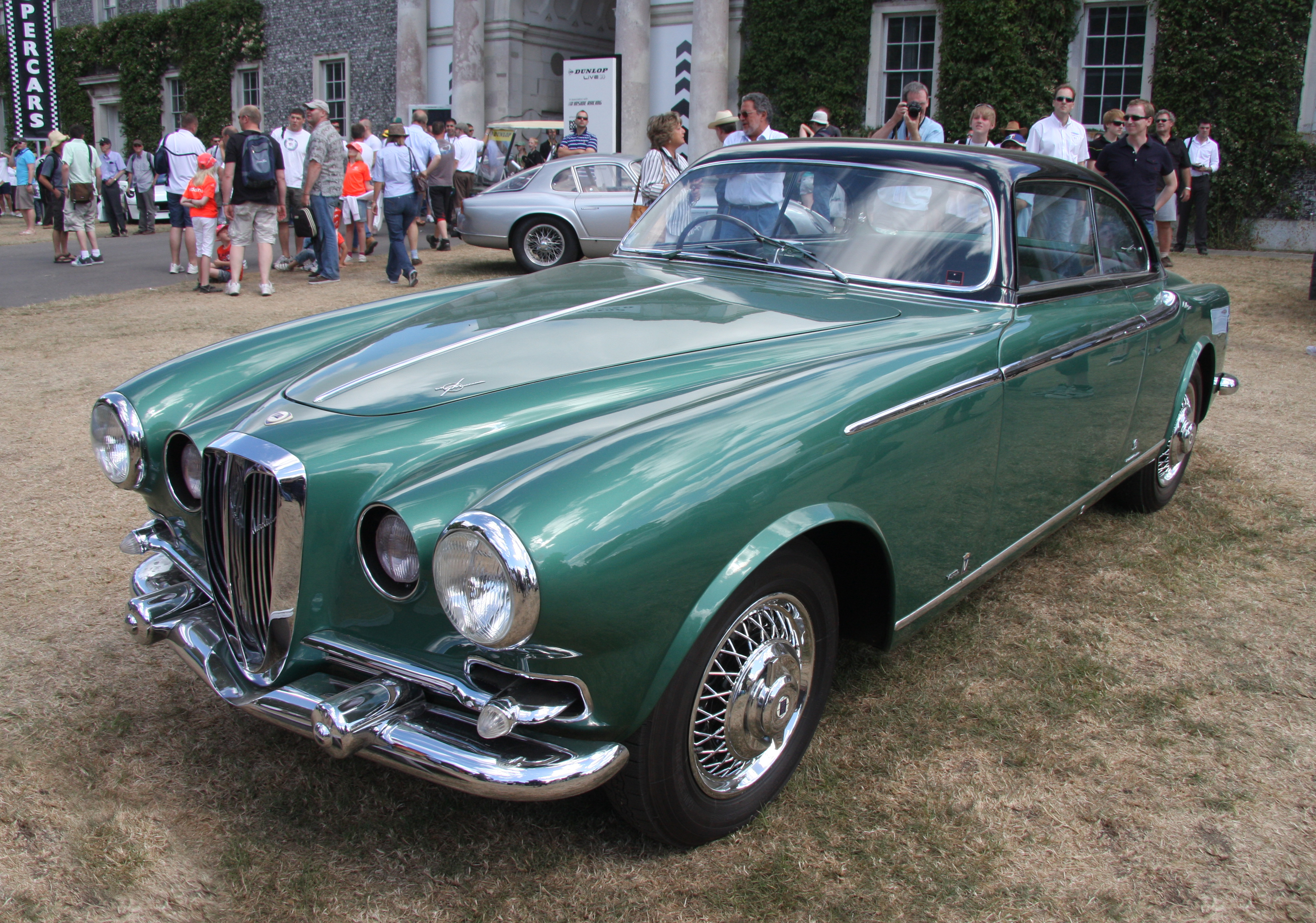 1952 Lancia Aurelia 2000 Vignale Coupe s/n B52-1072 at Goodwod Festival of Speed in 2010.